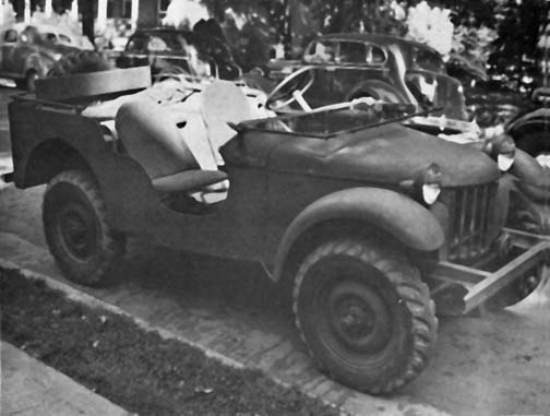 Bantam Number One, as delivered to Camp Holabird, MD on 23 September 1940.